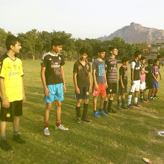 Wajahat ali , Faizan malhi , danish Ahmad, etc